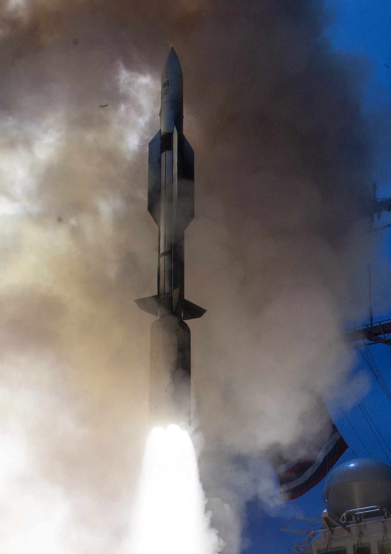 The Arleigh-Burke class guided-missile destroyer USS John Paul Jones (DDG 53) launches a Standard Missile-6 (SM-6) during a live-fire test of the ship's aegis weapons system. 140619-N-ZZ999-167 PACIFIC OCEAN (June 19, 2014) The Arleigh-Burke class guided-missile destroyer USS John Paul Jones (DDG 53) launches a Standard Missile-6 (SM-6) during a live-fire test of the ship's aegis weapons system. Over the course of three days, the crew of John Paul Jones successfully engaged six targets, firing a total of five missiles that included four SM-6 models and one Standard Missile-2 (SM-2) model. (U.S. Navy photo/Released) (cropped)